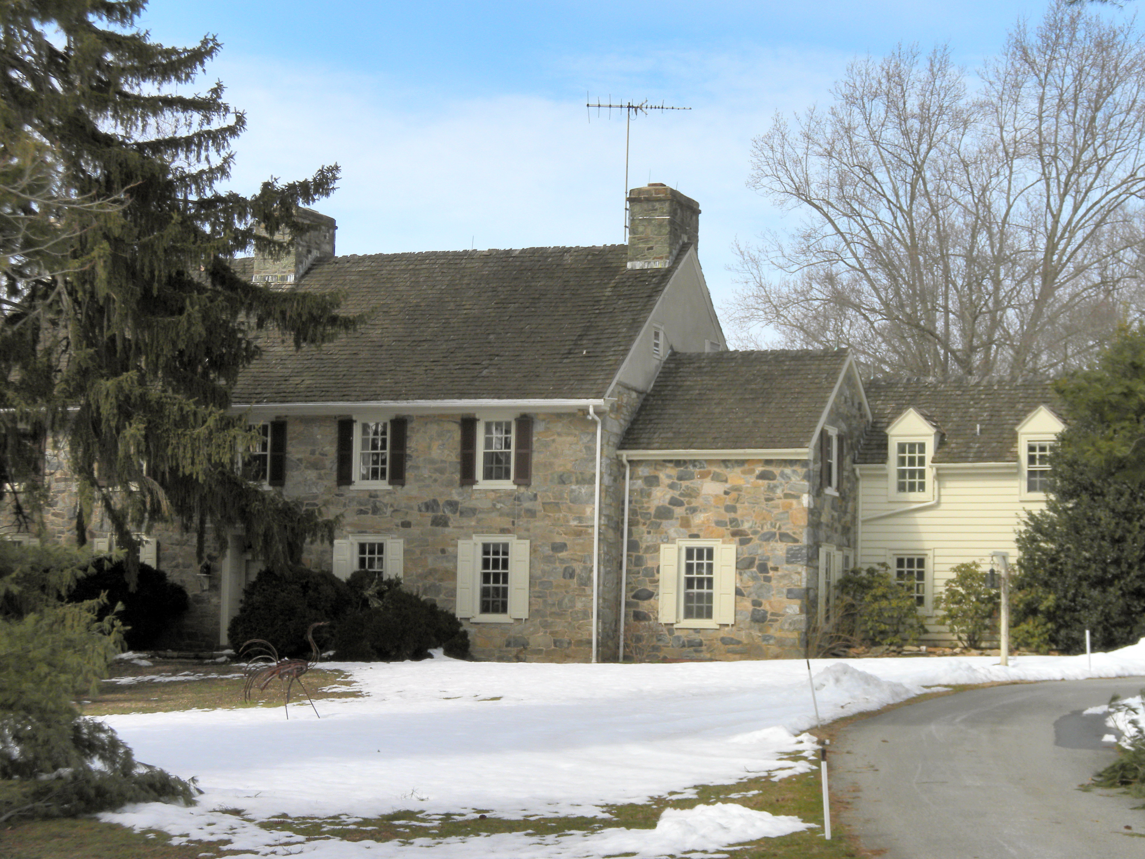 "Peter Harvey House and Barn" on NRHP since April 20, 1978. Located east of Kennett Square on Hillendale Road near Mendenhall in Pennsbury Township, southern Chester County, PA